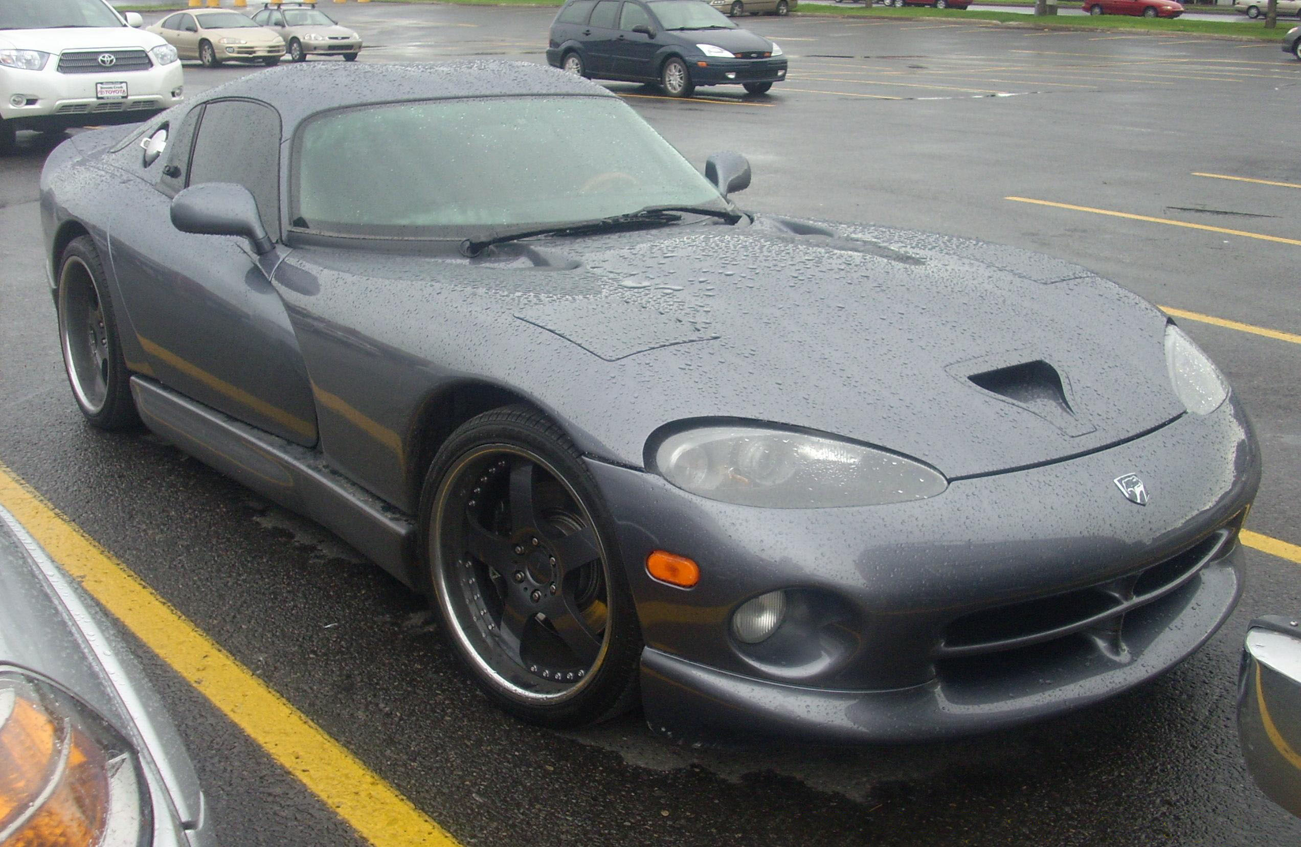 Dodge Viper photographed in Montreal, Quebec, Canada.